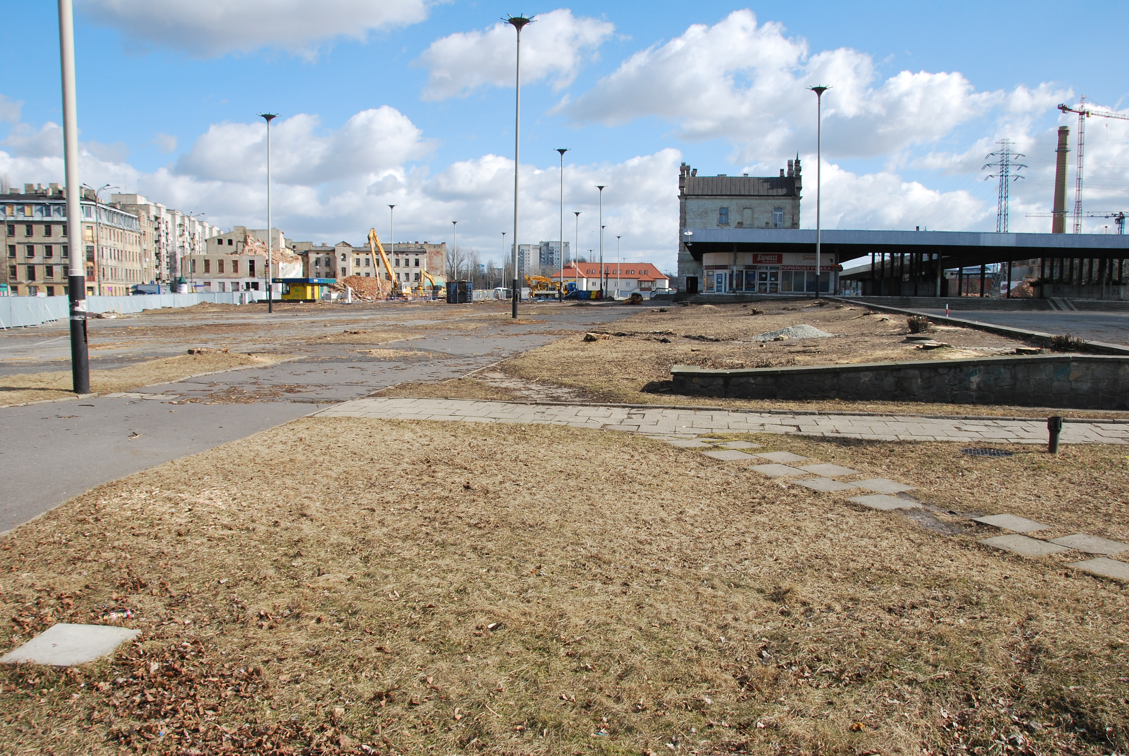 Former station Łódź Fabryczna in a start of renovation